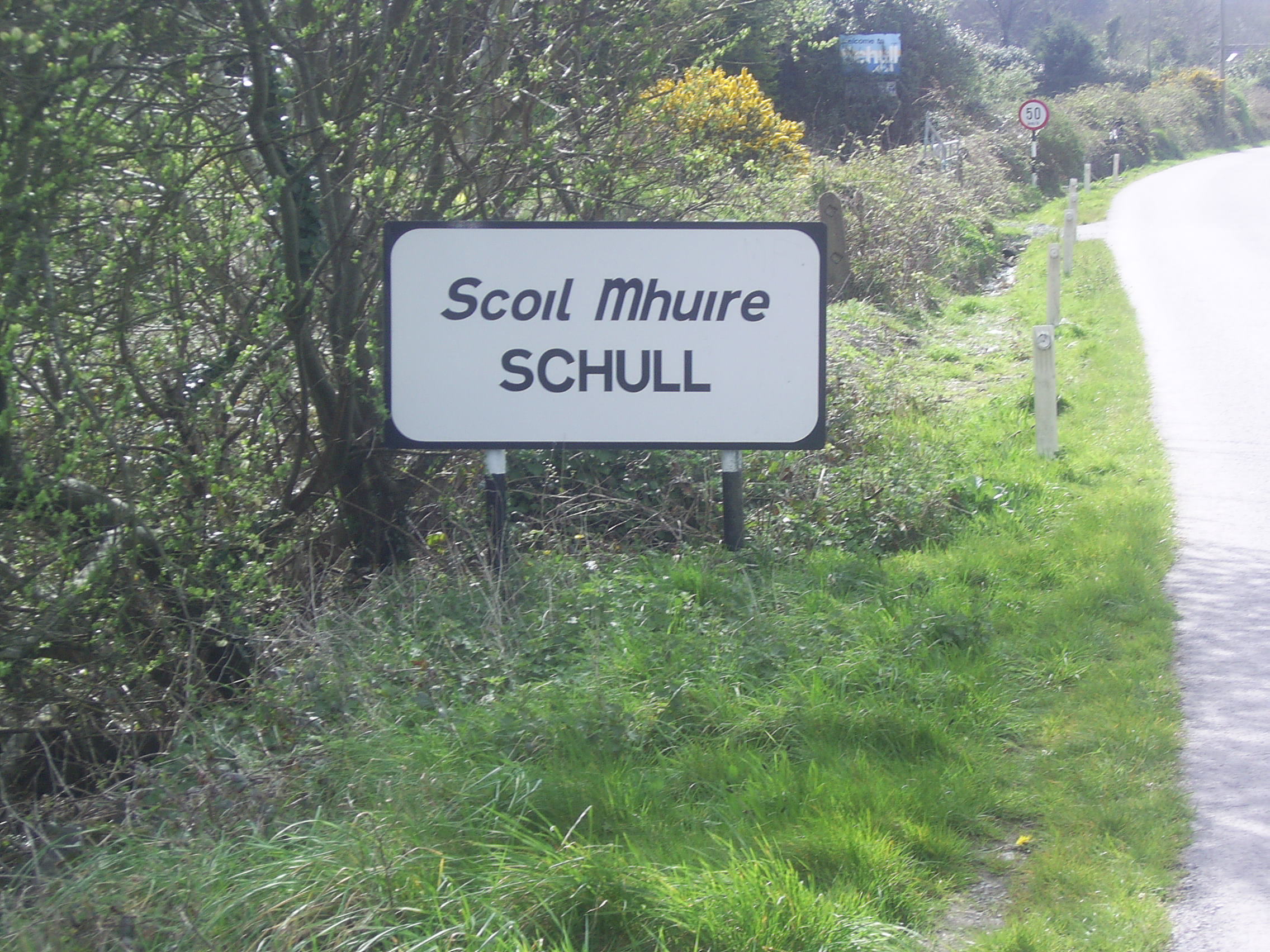 Schull, Cork placename sign.